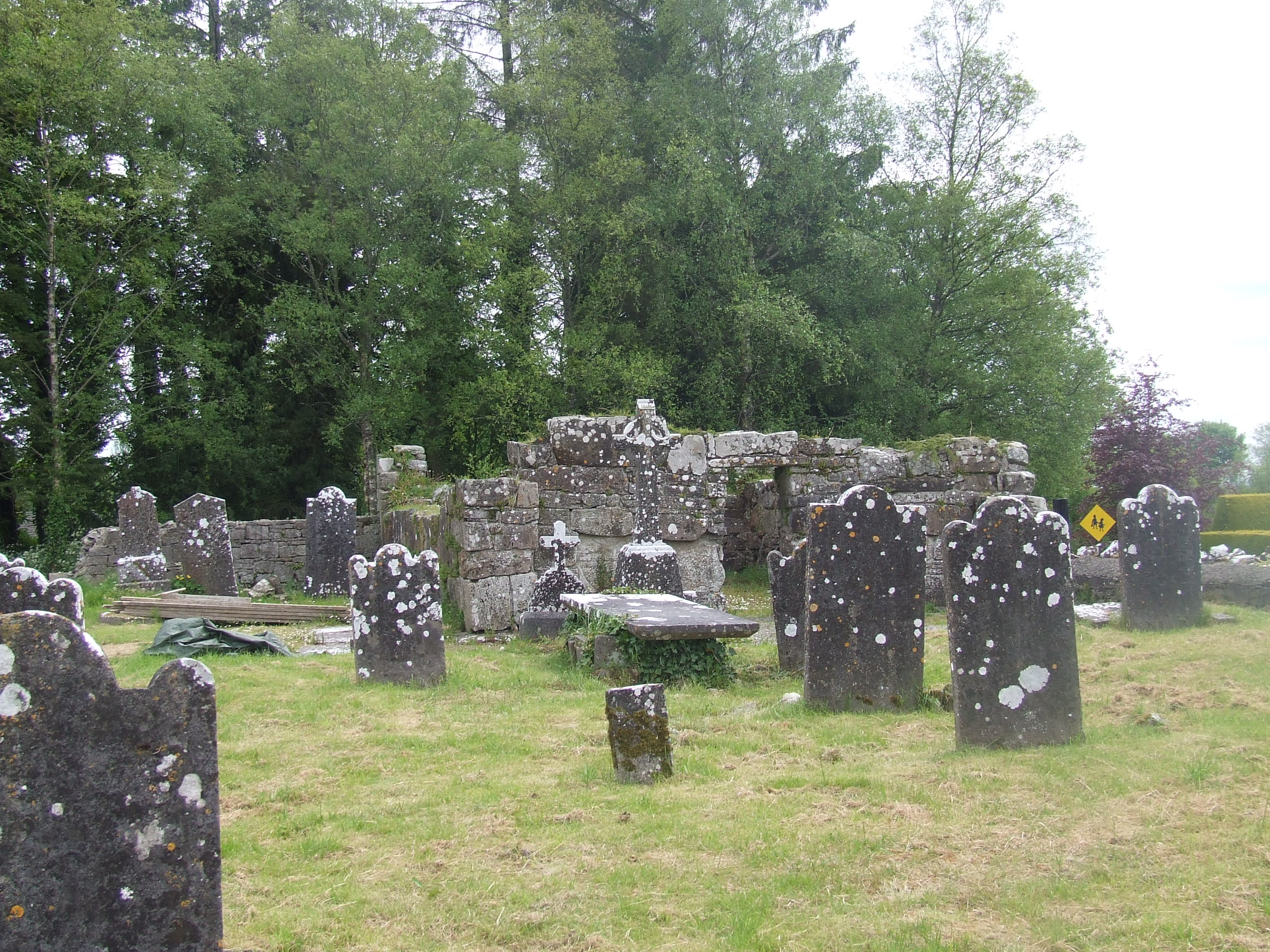 The western elevation of the ruins of the church of Saint Mel, Ardagh, County Longford. Viewed from the the corner of Saint Patrick's church on the same site across the graveyard.